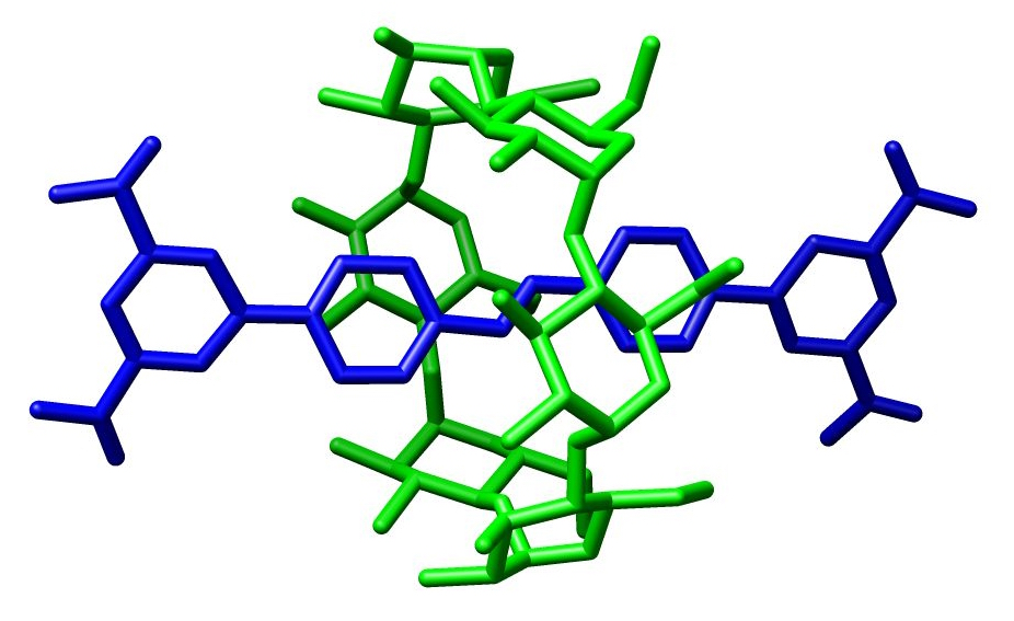 This is a picture generated from a crystal structure data reported by Carol A. Stanier, Michael J. O Connell, Harry L. Anderson and William Clegg, Chemical Communications, 2001, 493. It shows a rotaxane with an alpha cyclodextrin macrocycle. It was made by myself and is free to be used by all.